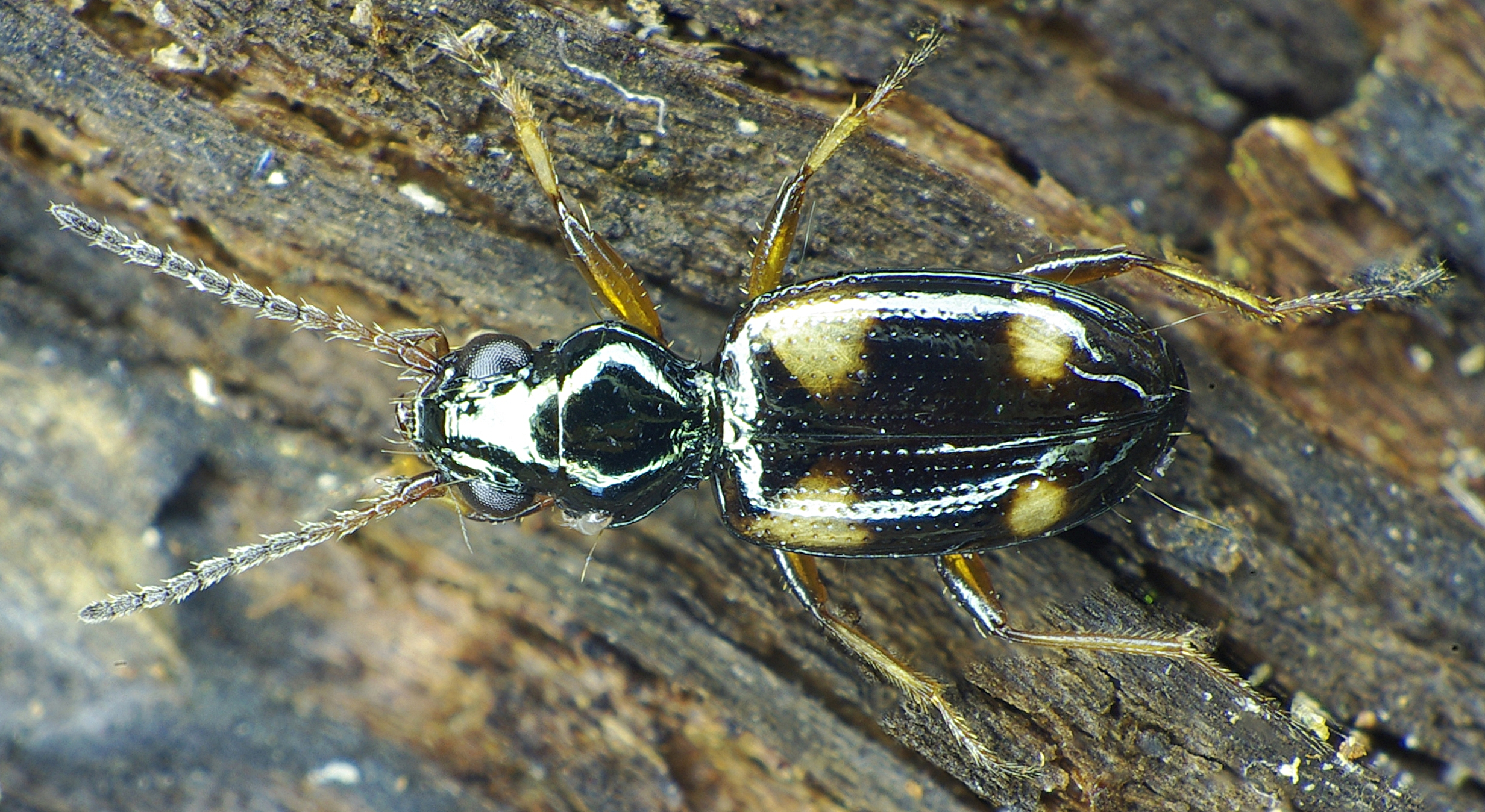 Bembidion quadrimaculatum from Southern Germany, near Tuttlingen, 700m high, at wet piece of rotten wood at 2011-03-09